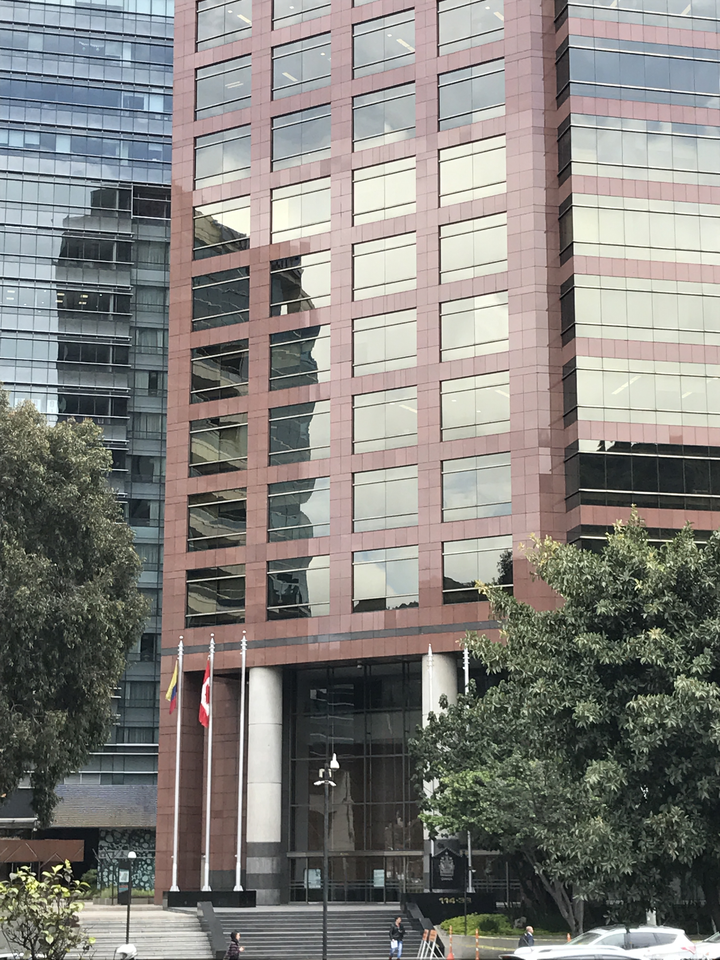 Embassy of Canada in Bogota, Colombia